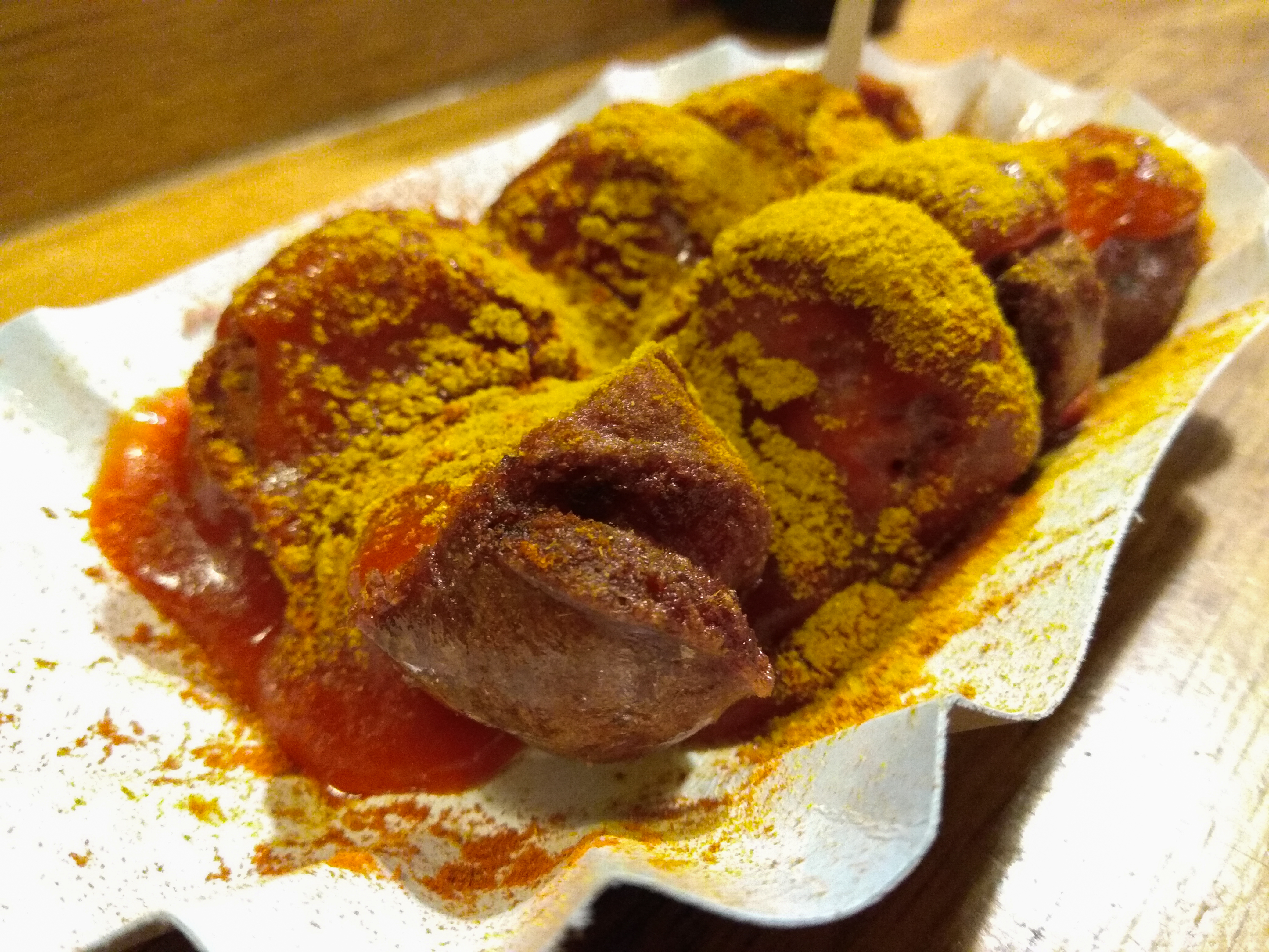 Currywurst (served sliced and without fries here) is a popular Berlin street food where fried sausage is seasoned with ketchup and curry spices.